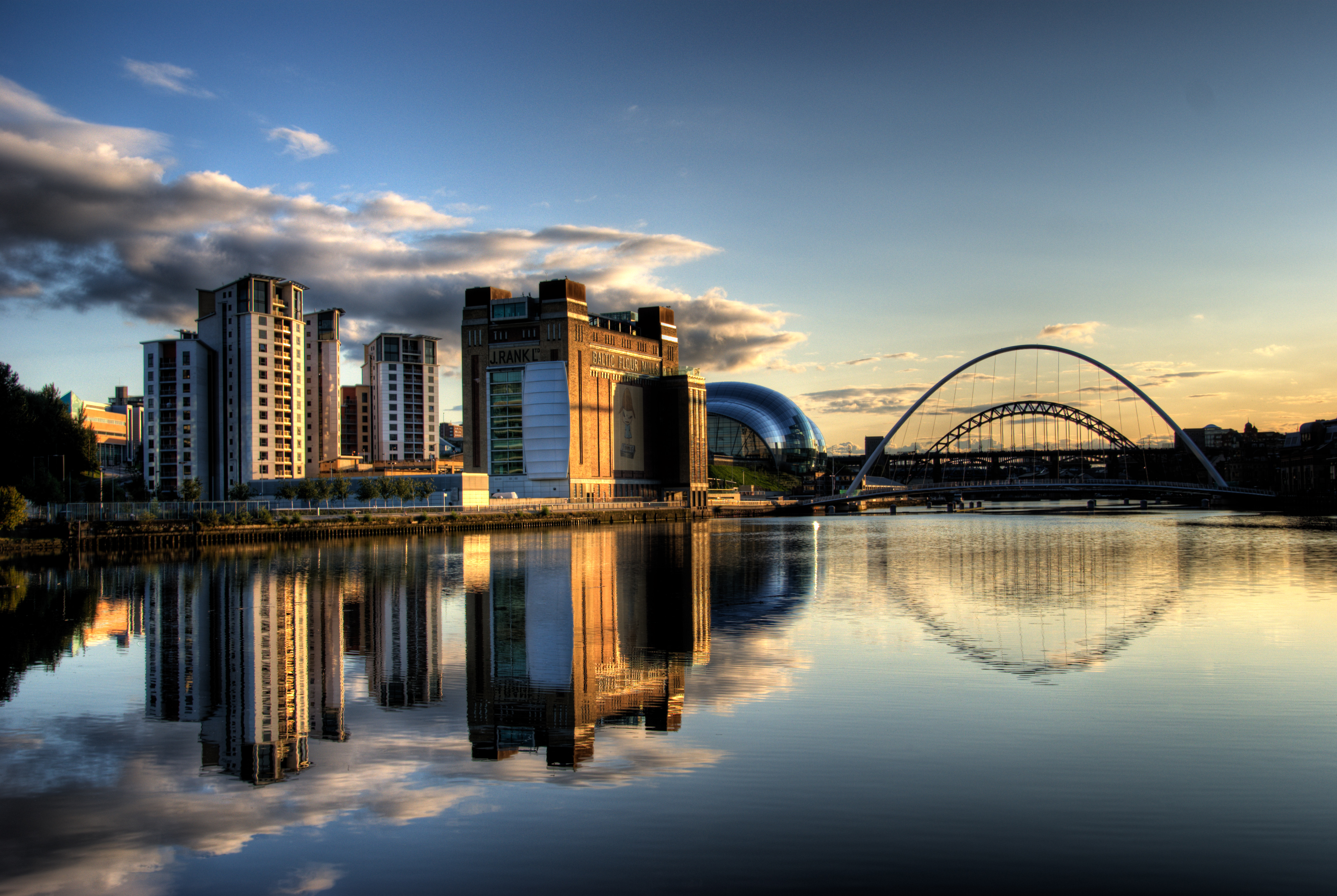 Gateshead